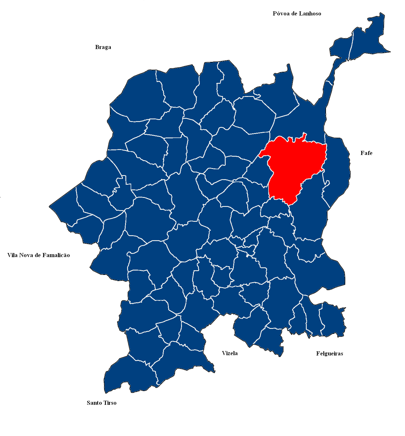 Map of Parish of São Torcato, Guimarães, Portugal.